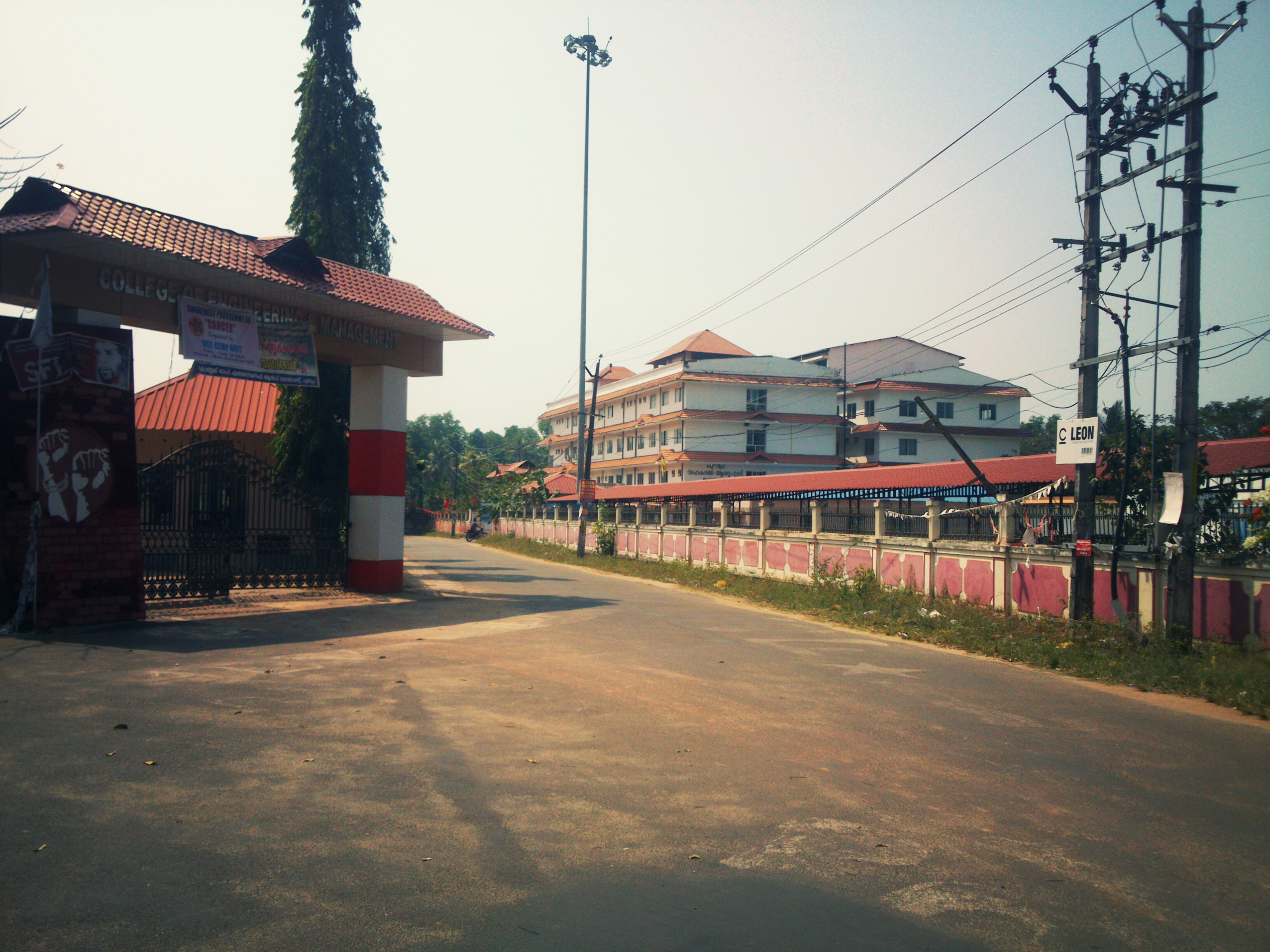 Junction inside CAPE campus